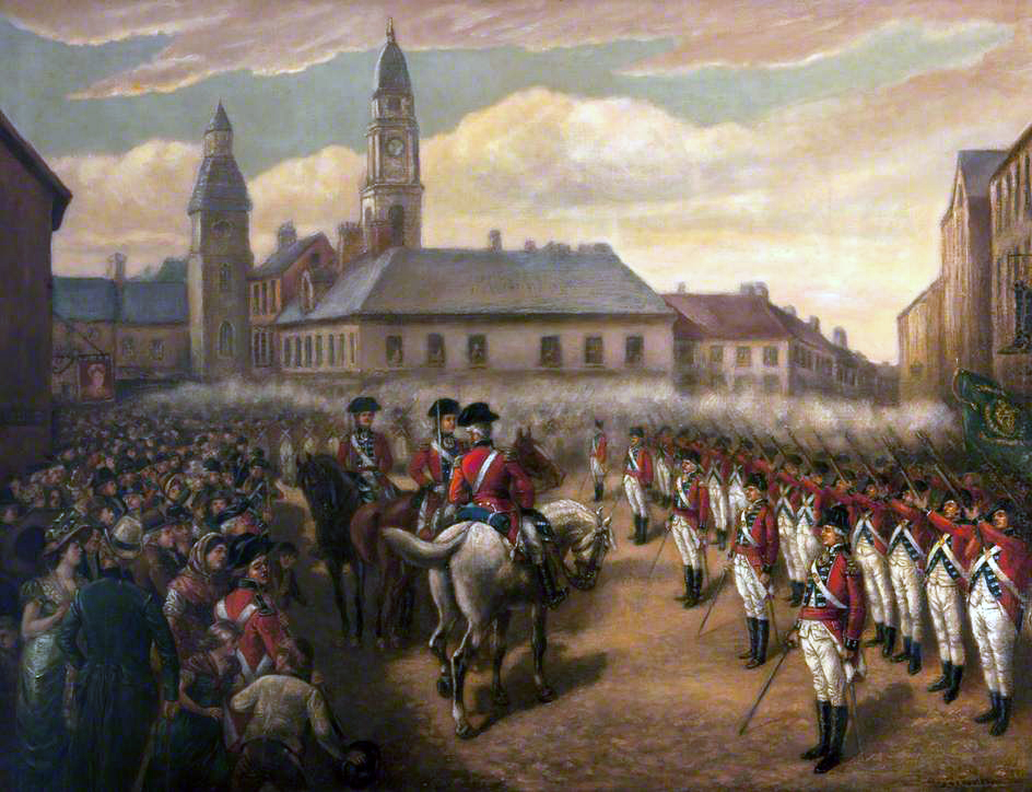 This picture, as imagined by John Carey, captures the spirit of the local volunteers in Market Square, Lisburn, in celebrating the resolutions of the Volunteer Convention at Dungannon, which led to the achievement of legislative independence for Ireland in 1782.